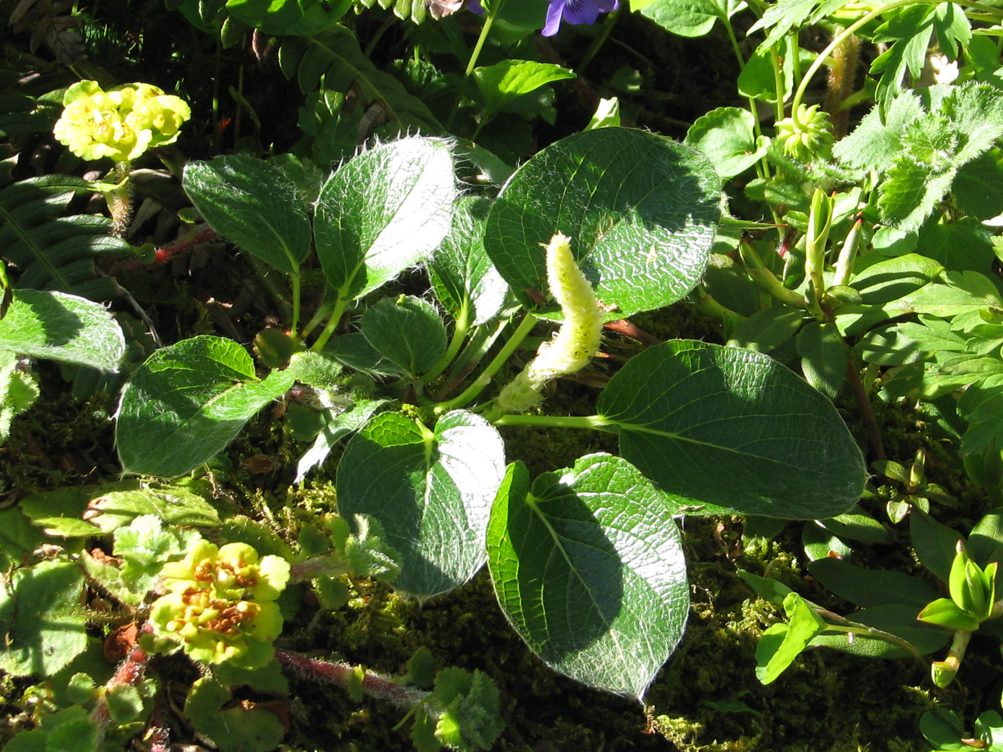 Salix nakamurana var. yezoalpina